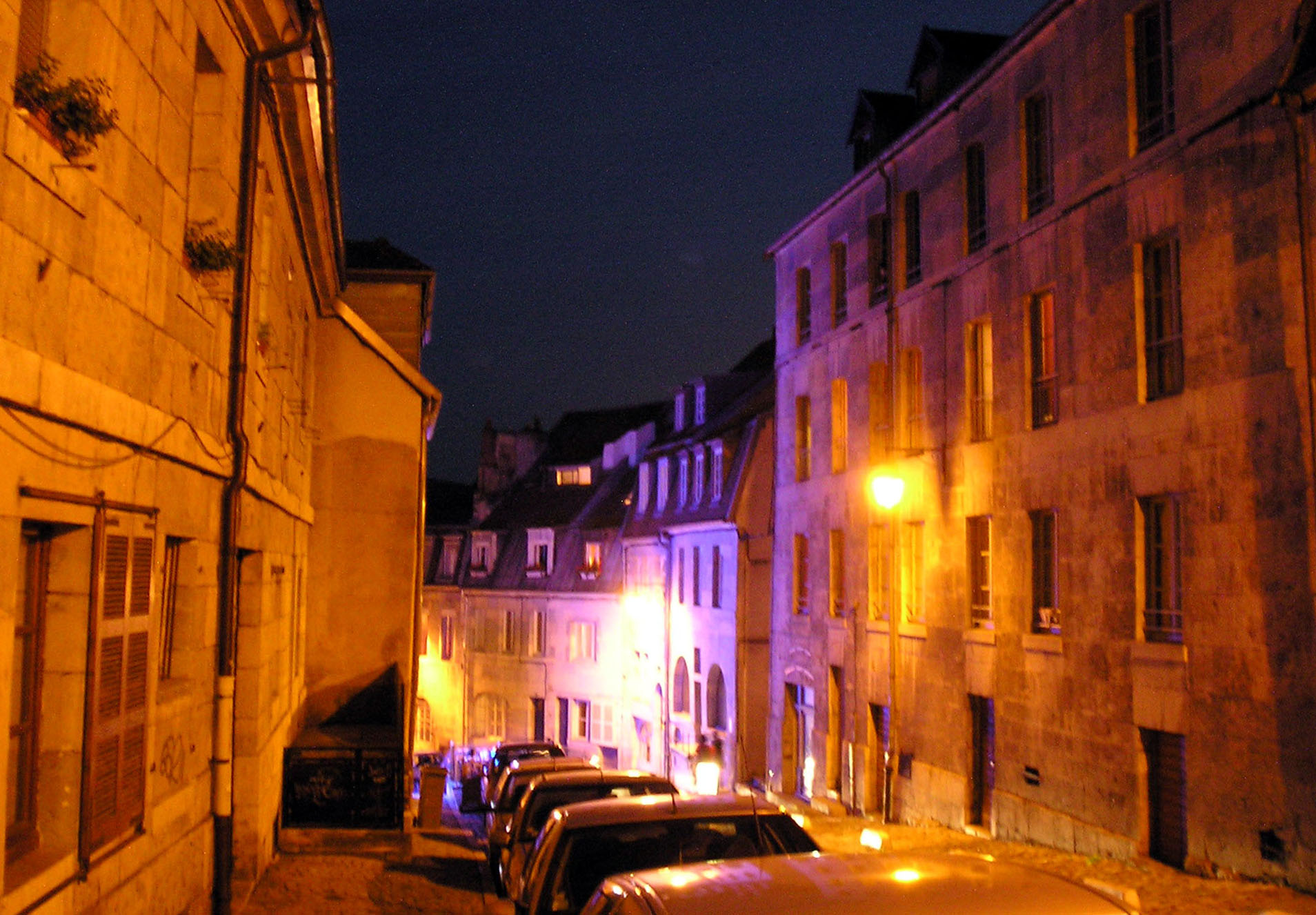 street called rue des Frères Mercier in french city of Besançon